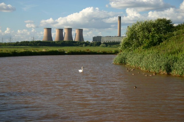 Former Runcorn-Latchford Canal This spur of a former canal remains within Wigg Island Community Park. The canal was built between 1799 and 1804, pre-dating the Manchester Ship Canal by almost a hundred years. The area is a Local Nature Reserve and attracts much wildlife.